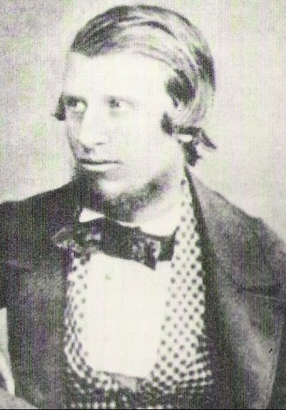 A circa 1865 photograph of golfer Andrew Strath